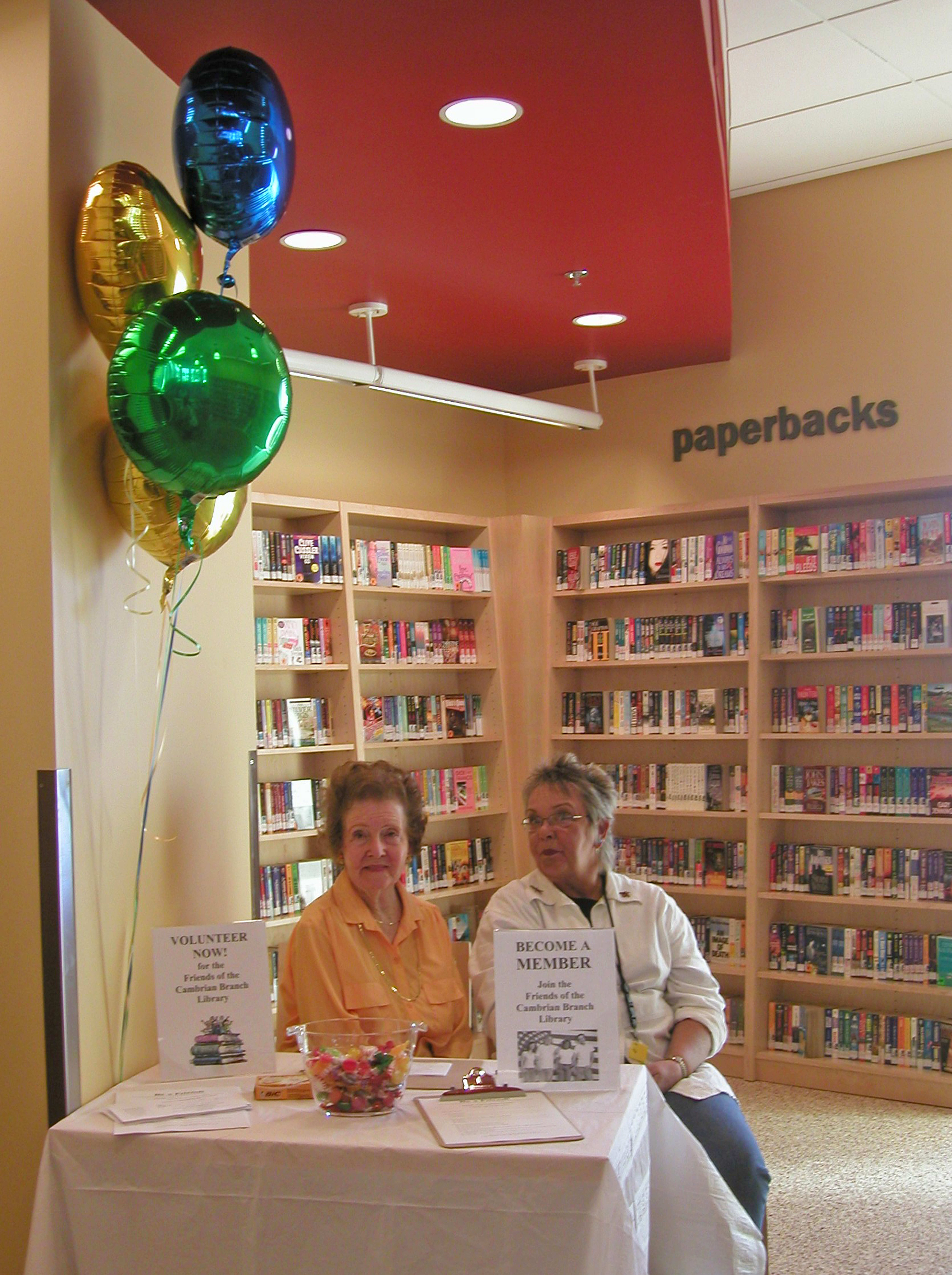 Friends of the Cambrian Library recruiting new members.